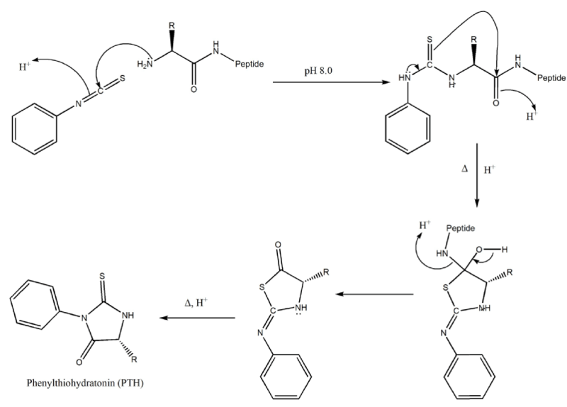 Mechanism for the Edman Degradation. Drawn in Chemdraw 2005.